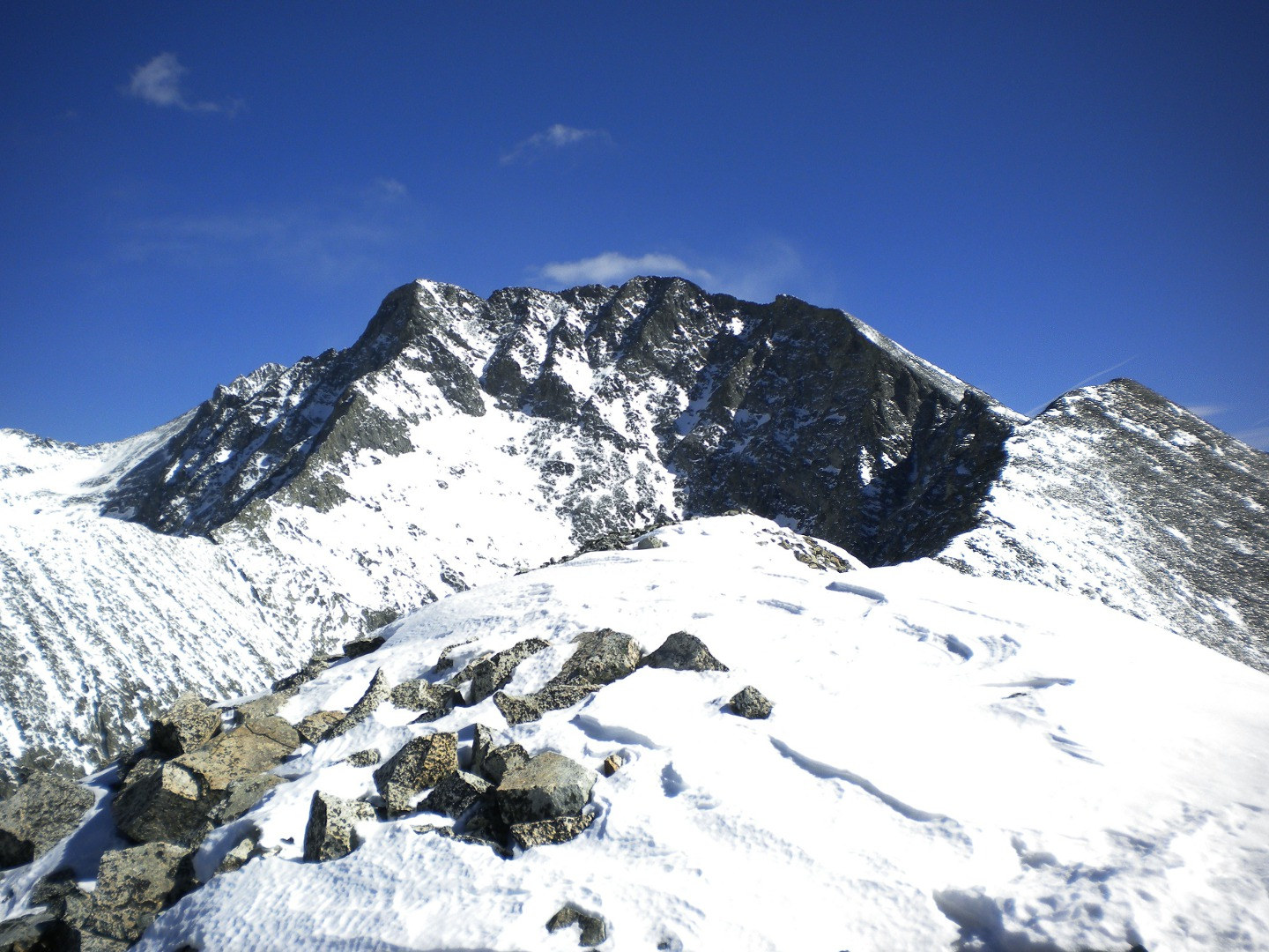 Little Bear Peak, as seen from the south west ridge. The hourglass gully is also clearly visible below the main peak.